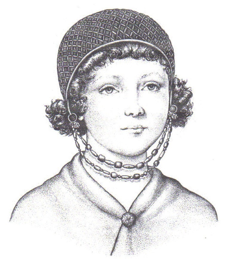 Image of Roman Pannonian girl of the sixth century. I have done the image with my software.